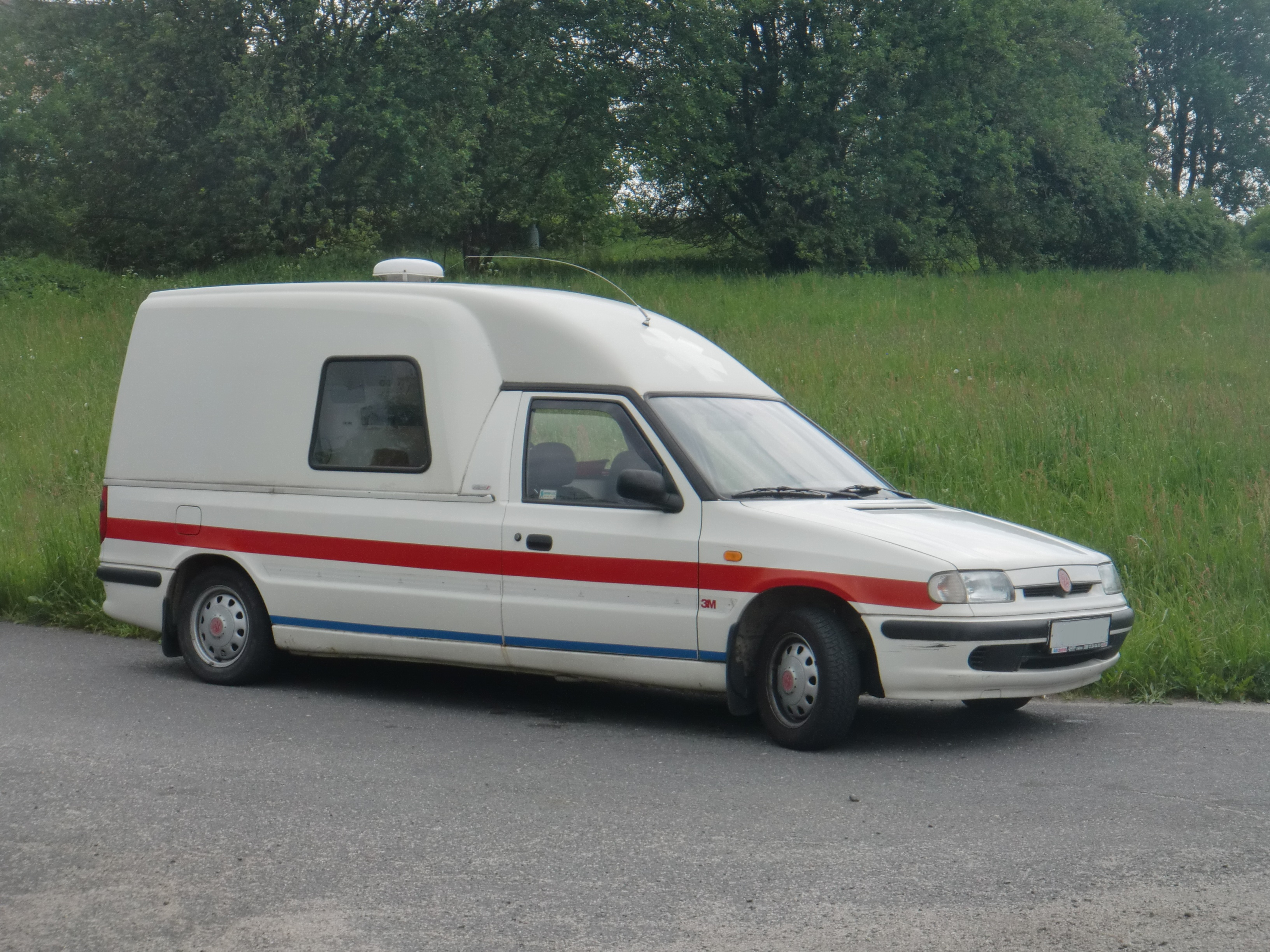 Jelínek Laureta (longer version of Škoda Pickup) in ex-Ambulance version